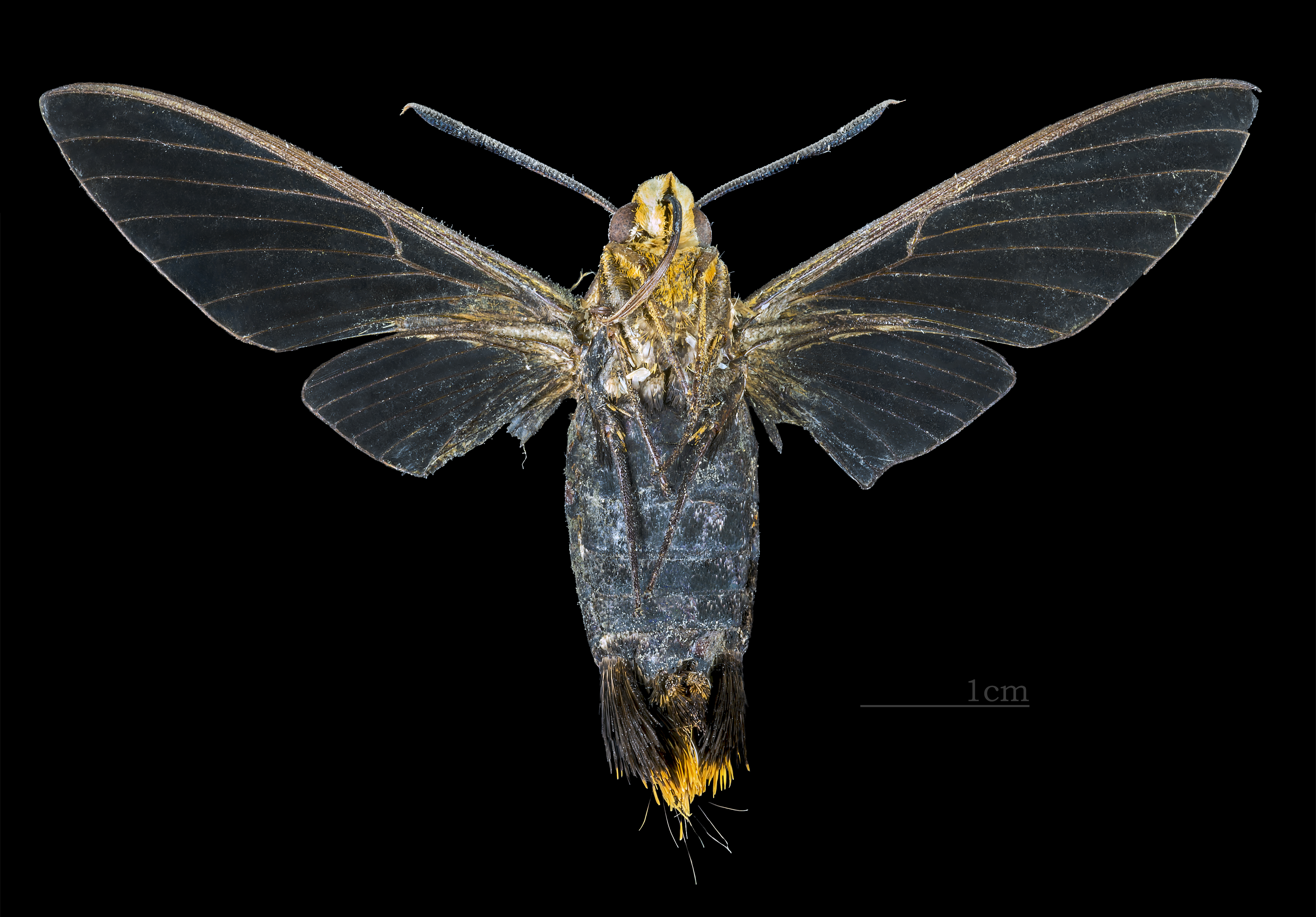 Cephonodes banksi - △ Ventral side